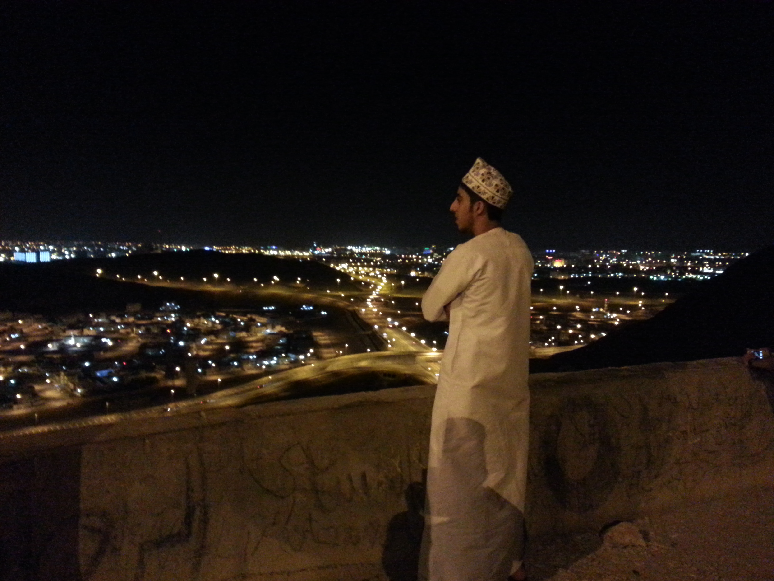 شال تعلوا رأسه كمة